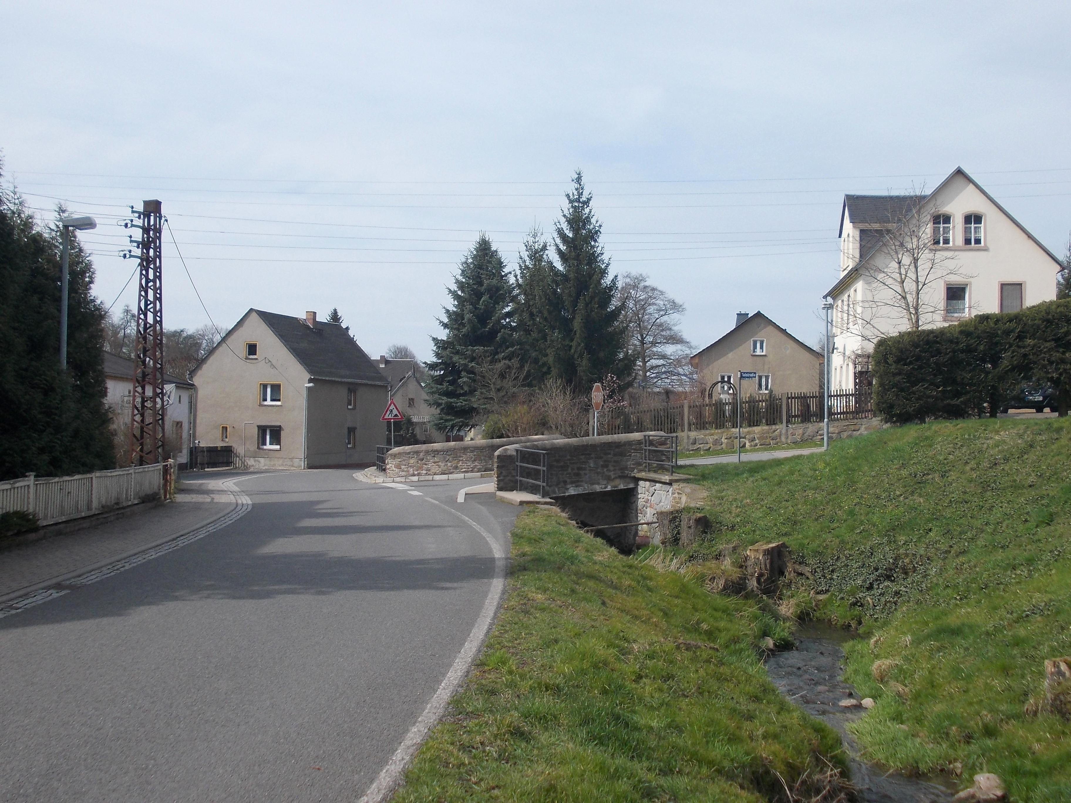 Berbersdorfer Bach in Berbersdorf (Striegistal, Mittelsachsen district, Saxony)